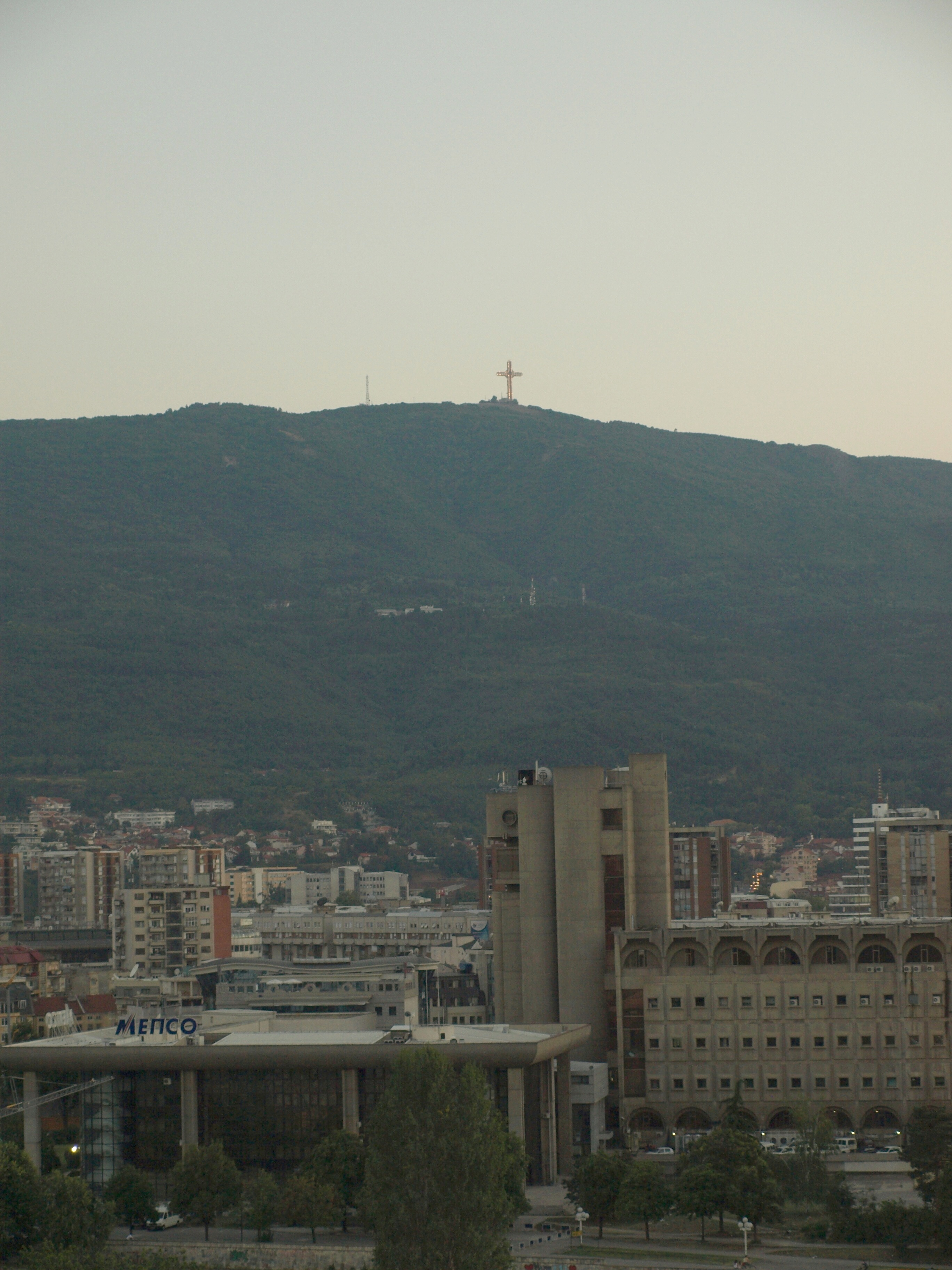 Millennium Cross above the city center of Skopje, Macedonia